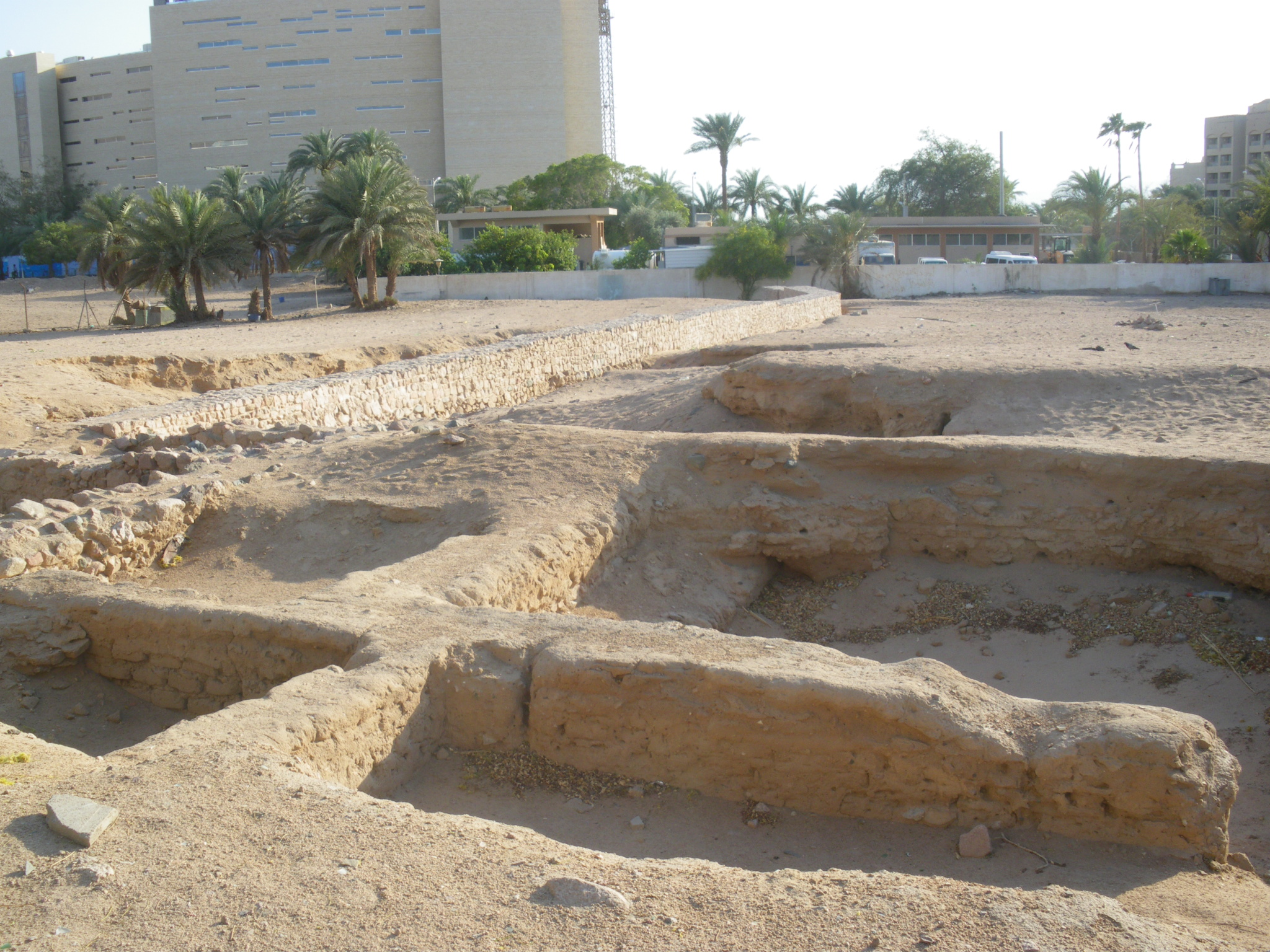 ruins of early church of Aqaba; rear, a byzantine era city wall